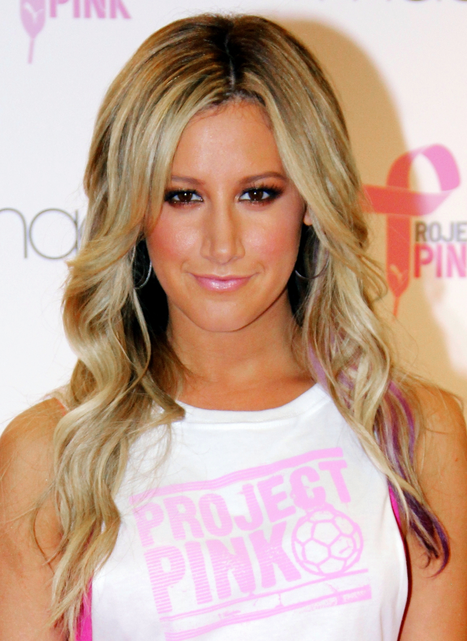 Ashley Tisdale at the Puma Project Pink, Macy*s Herald Square NYC in July 2012.